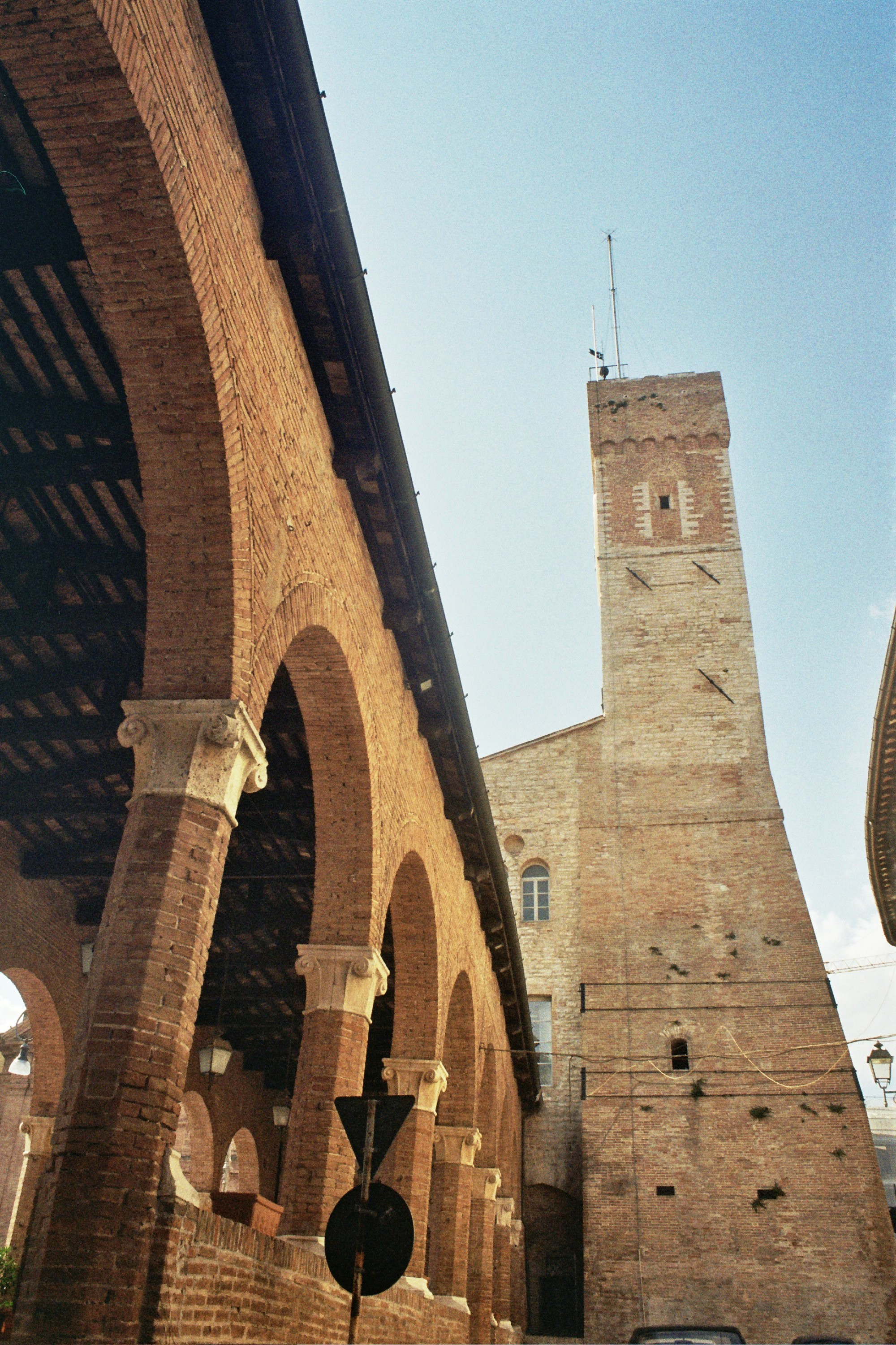 Matelica